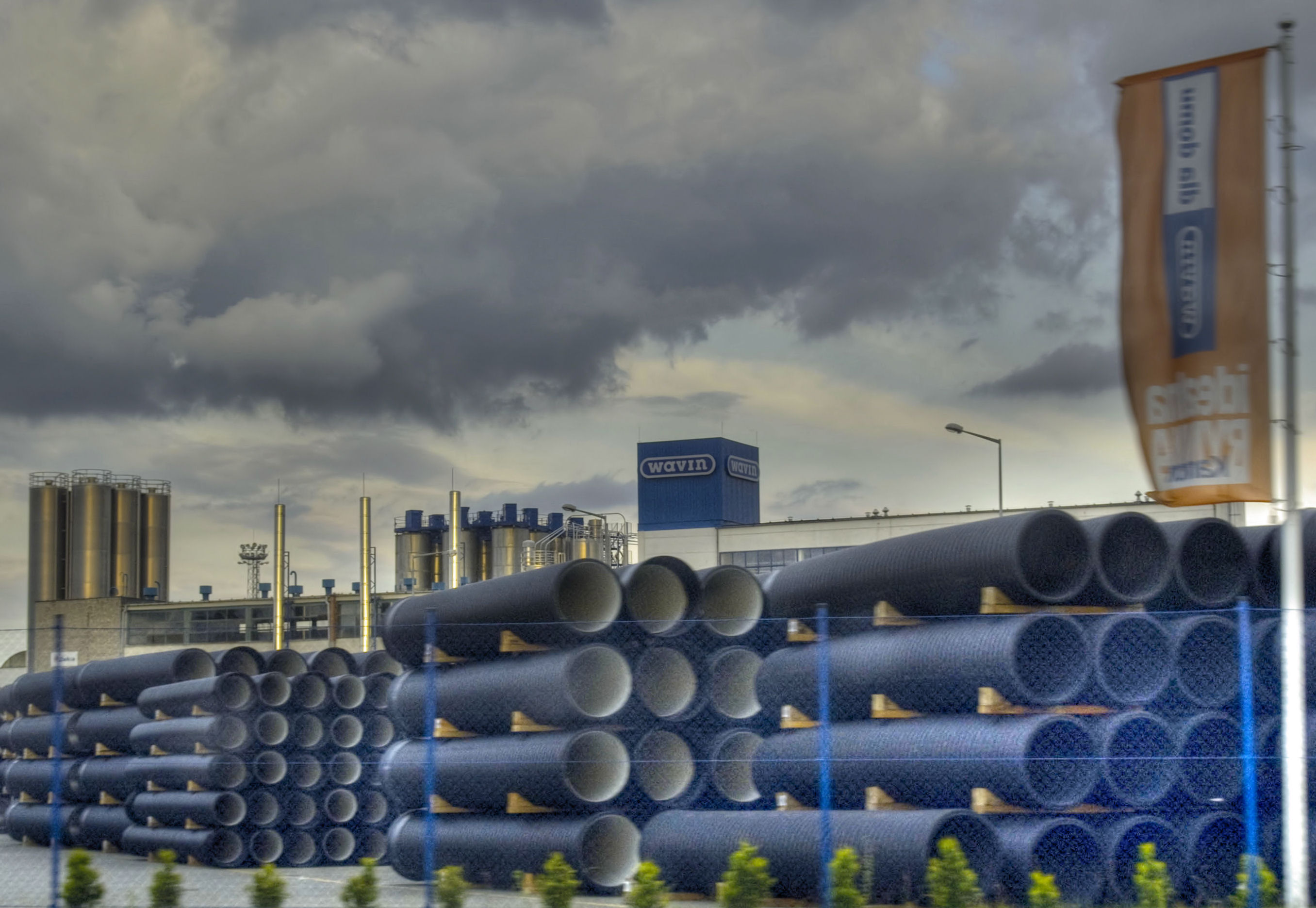 Wavin factory, Buk, Poland